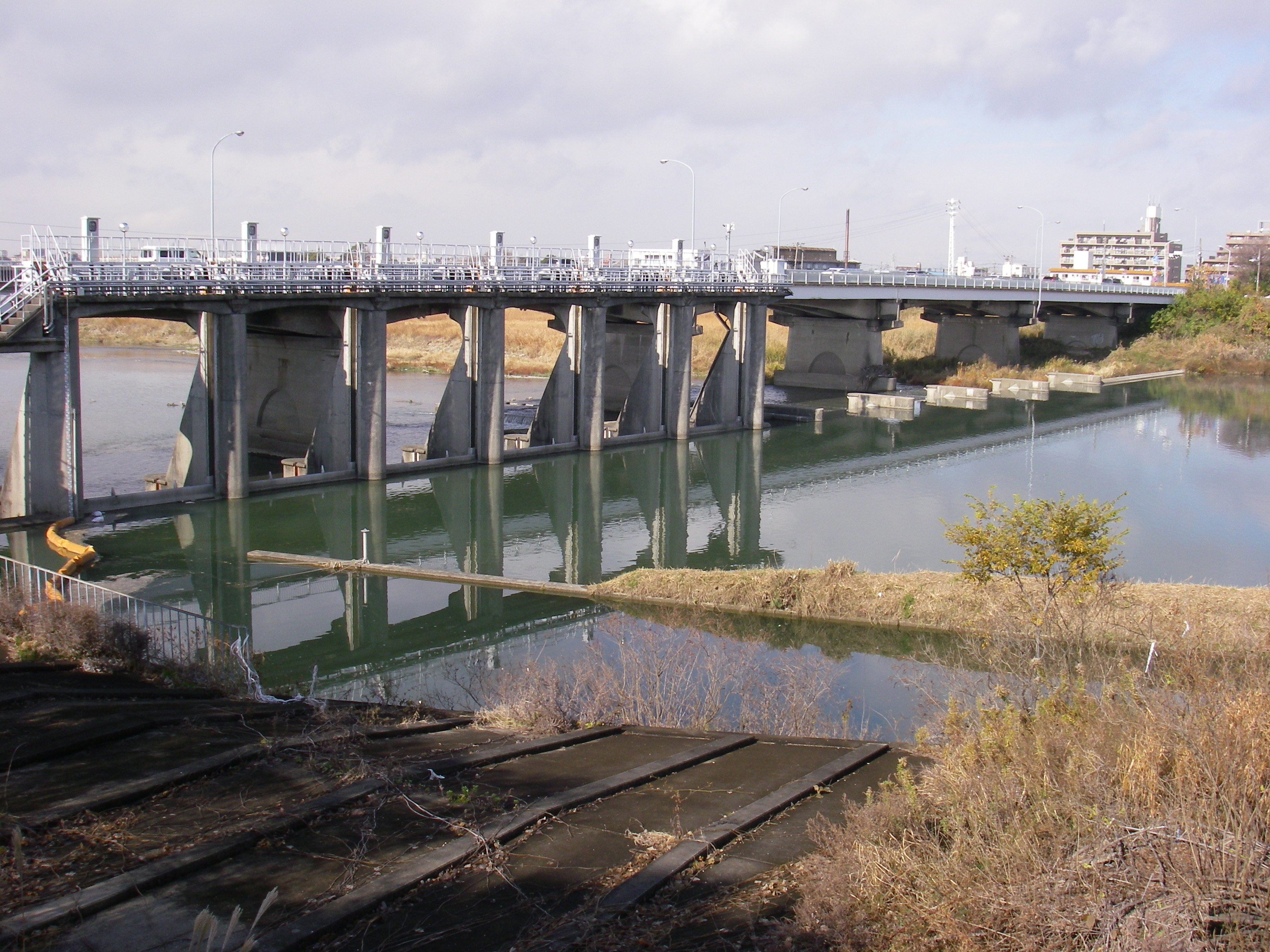 The Shonai-yosui Head Works and Mizuwake Bridge on the Aichi Prefectural Road Route 102 over the Shonai River in Nagoya City